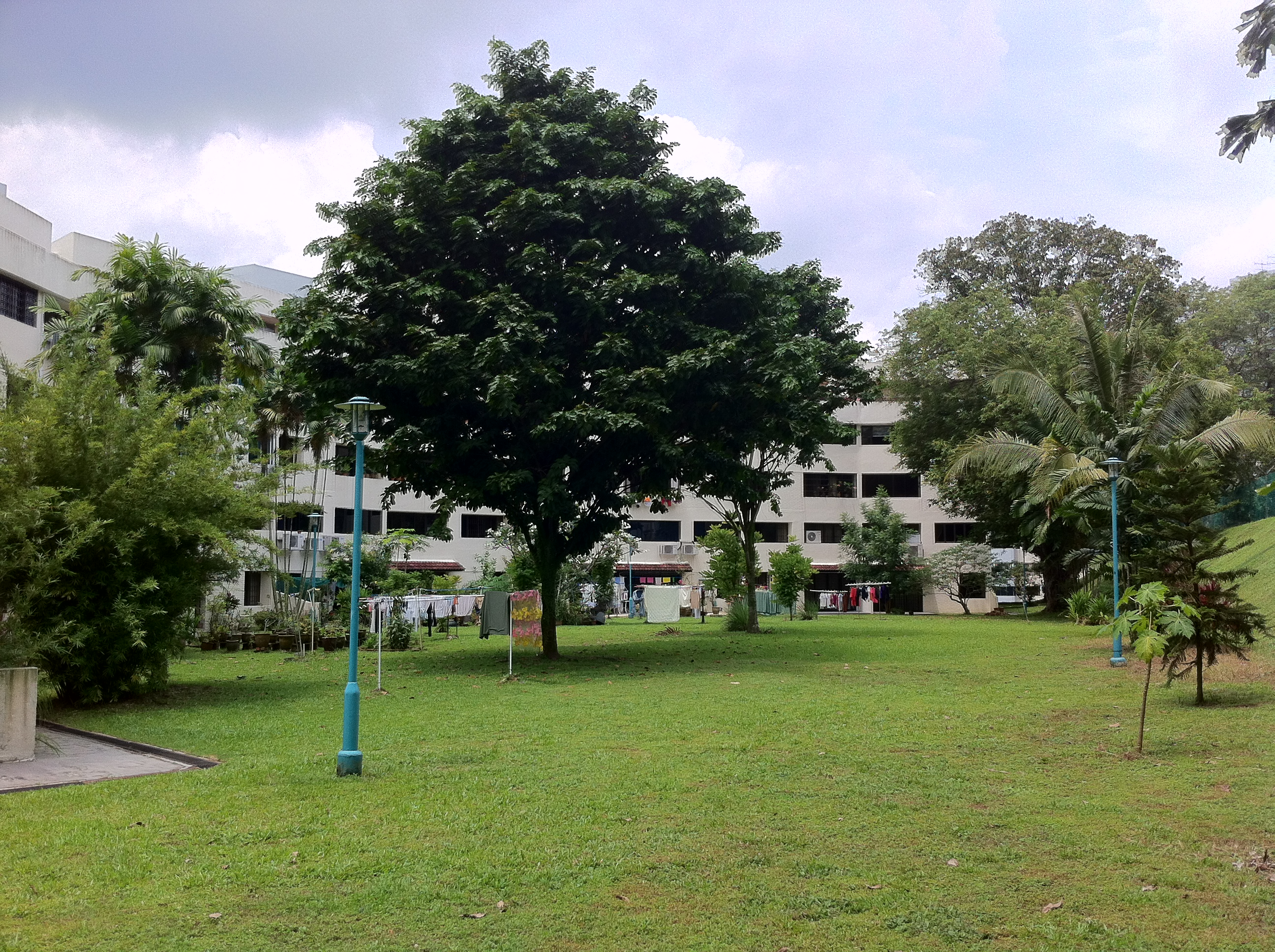 Site of the Number 2 15" gun at the Buona Vista Battery, Singapore. Now the location of an apartment block called Pine Grove. Nothing remains of the gun.